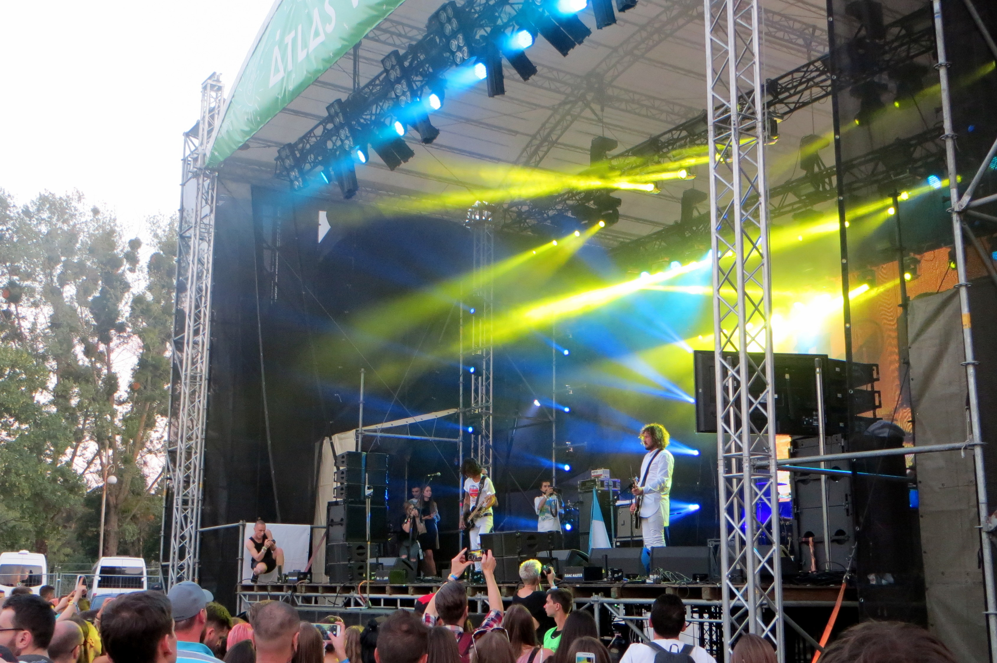 Atlas Weekend Festival in Kyiv. The Gitas band.